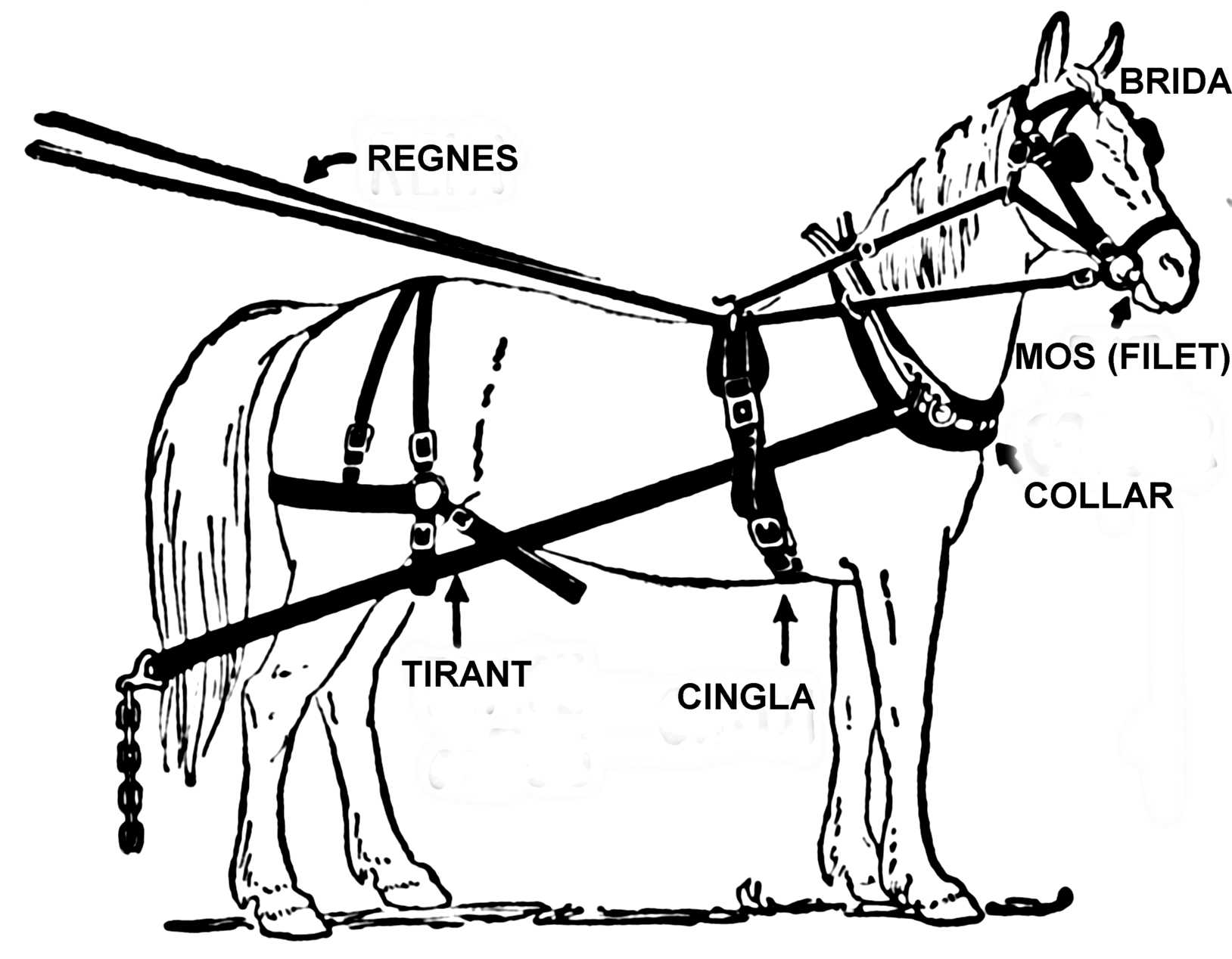 Catalan definition of horse harness